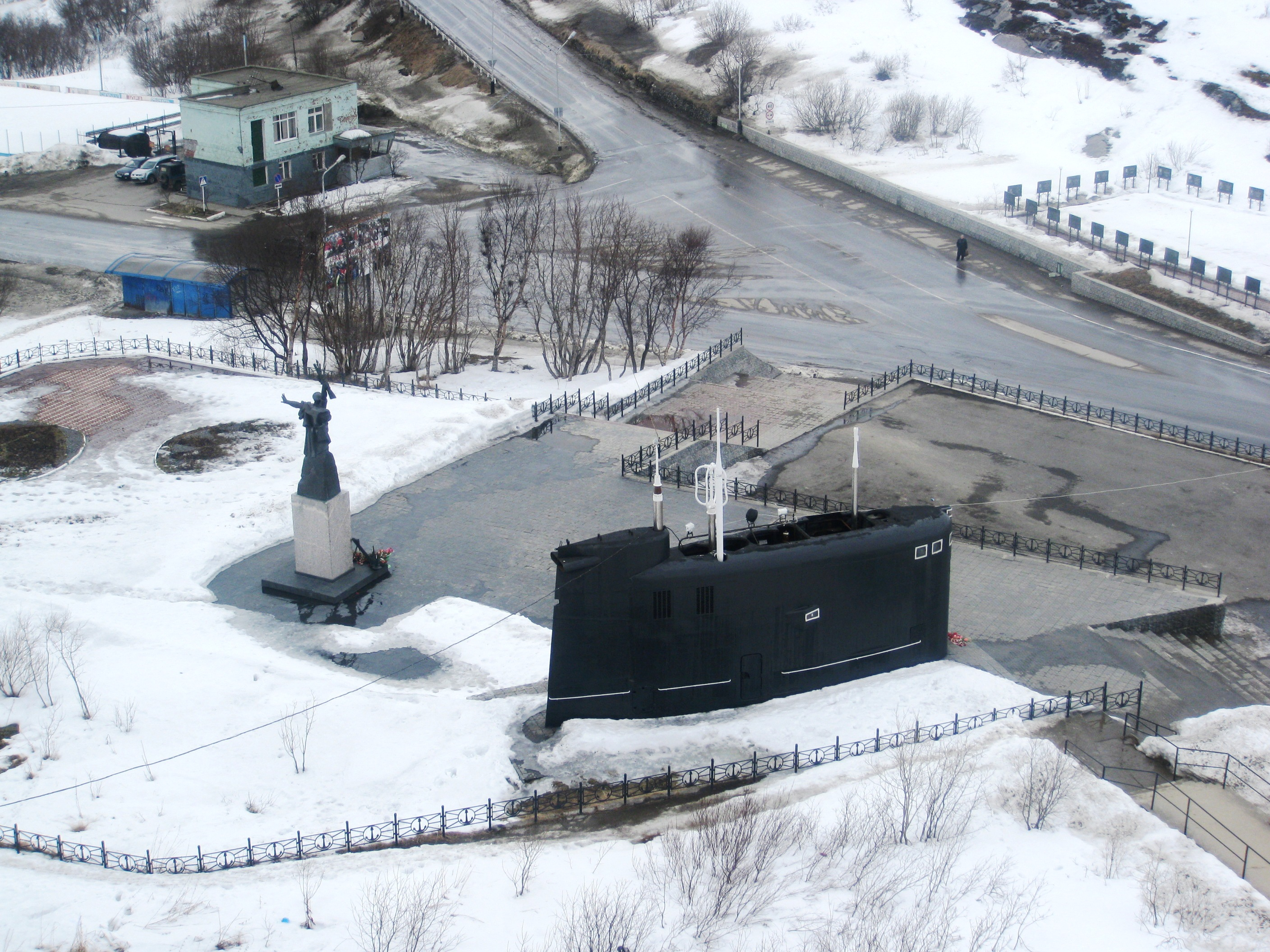 Memorial "Sea Soul" in Polyarny. Conning tower of B-319 submarine, Foxtrot class.